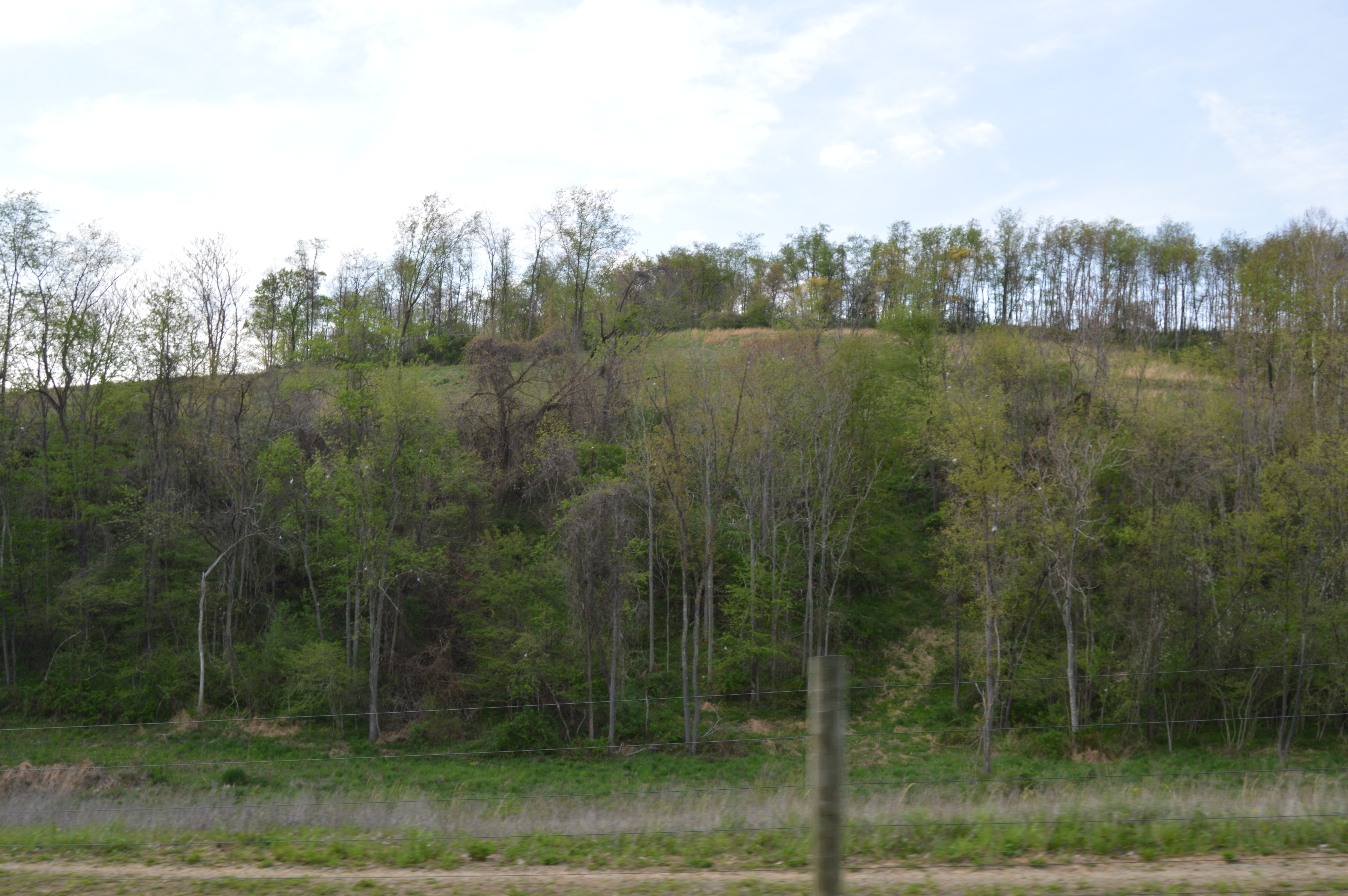 Fields off Perry Road west of Perryopolis in Jefferson Township, Fayette County, Pennsylvania, United States. In the distance, but not here visible, is the Francis Farm Petroglyph Site, which is listed on the National Register of Historic Places.